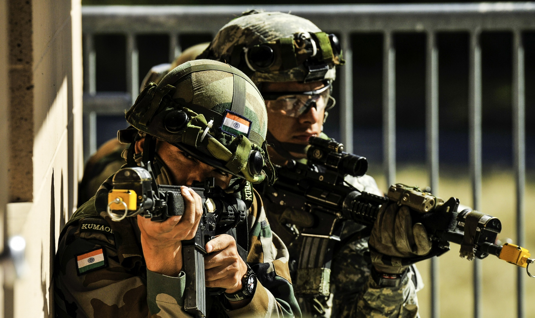 An Indian soldier from 6th Battalion of the 6th Kumaon Regiment pulls security before entering a room while conducting company movement procedures with 1st Brigade, 2nd Infantry Division during the exercise Yudh Abhyas 15 culminating training event at Joint Base Lewis-McChord, Wash., Sept. 21. Yudh Abhyas is an annual, U.S. Army Pacific-sponsored Theater Security Cooperation Program bilateral exercise and the first one held at JBLM.